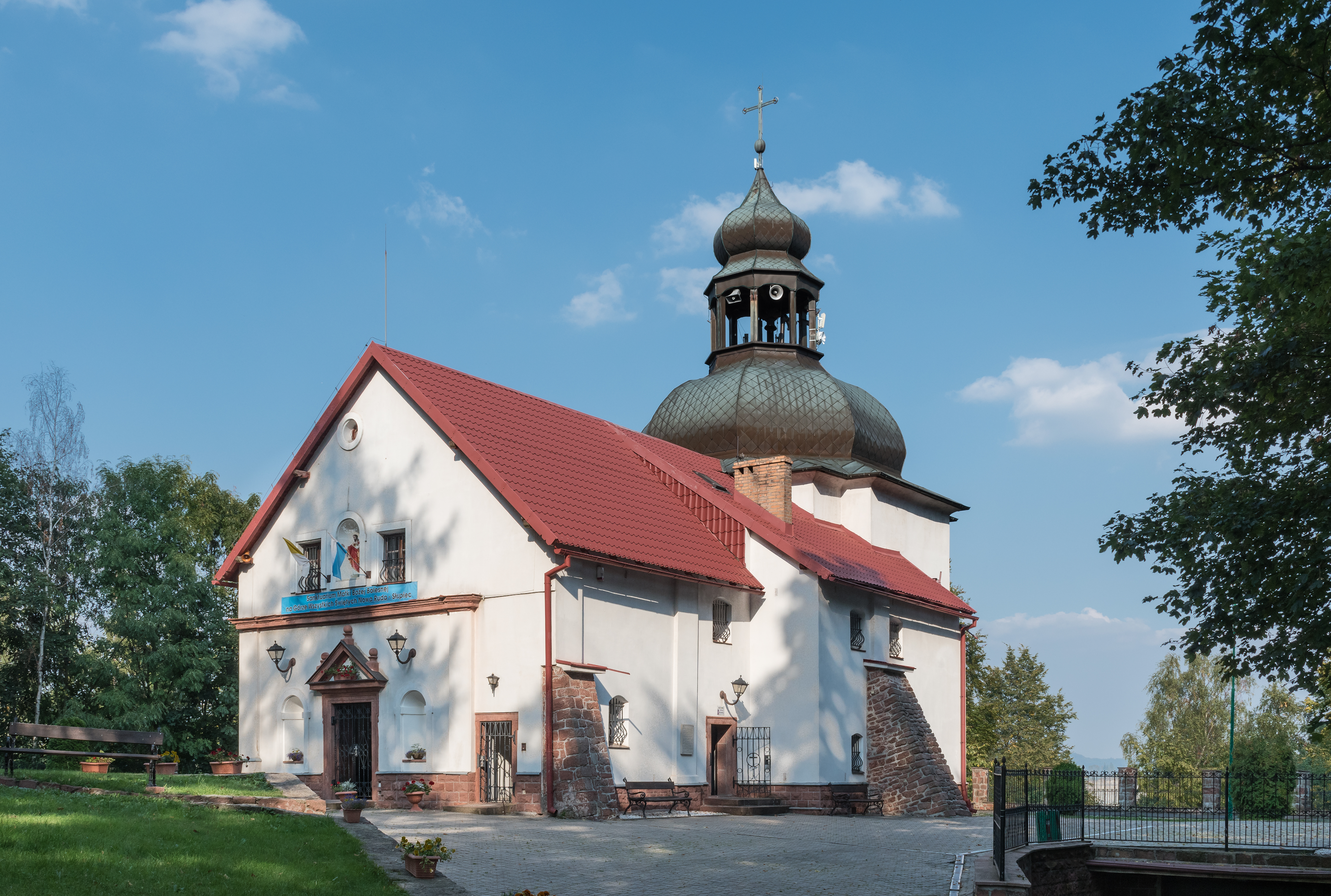 Our Lady of Sorrows Church in Nowa Ruda